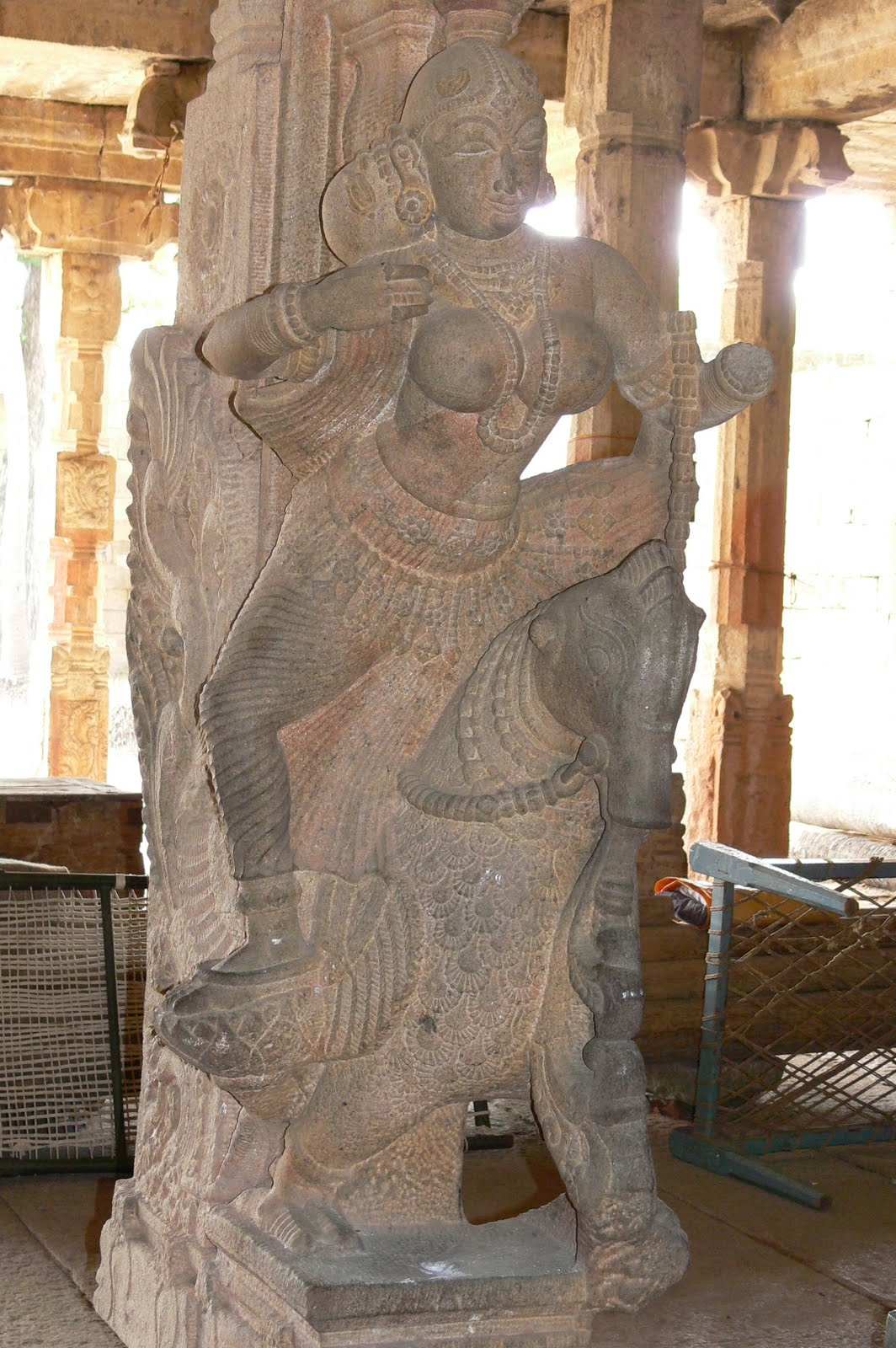 Rati